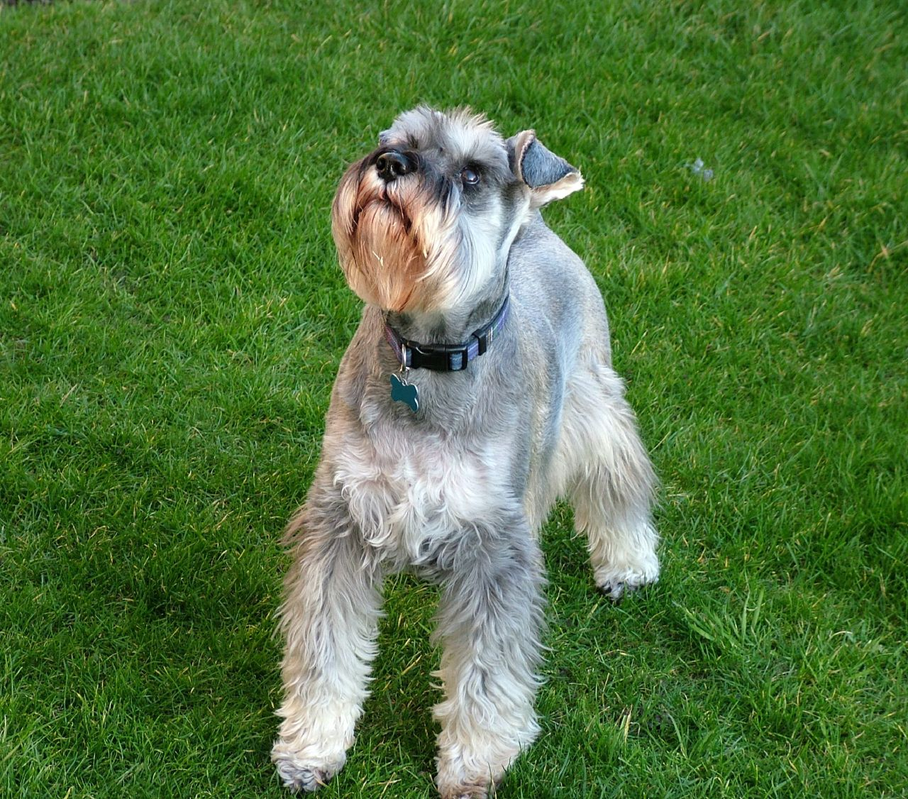 A salt-and-pepper coloured male Miniature Schnauzer named Jordy.